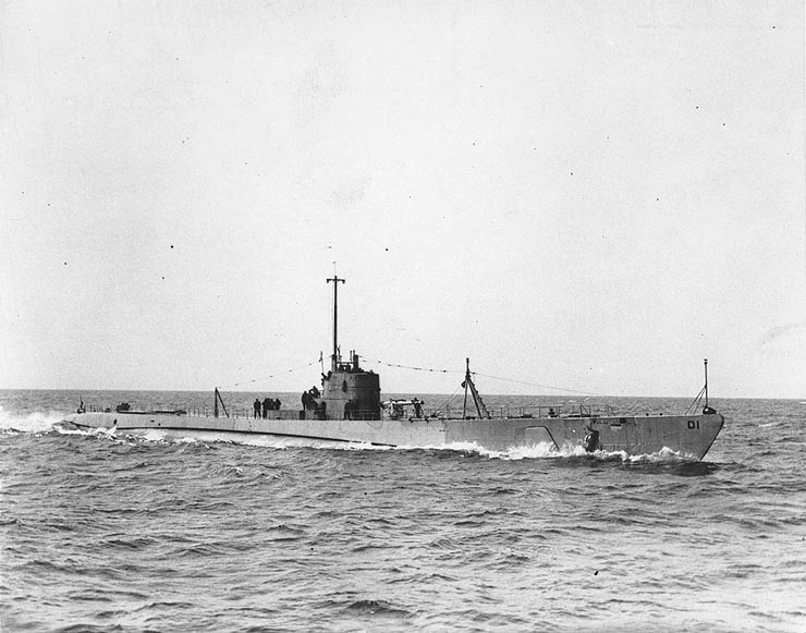 USS Dolphin (SS-169) underway, circa 1932. Original caption: “Photo # NH 54542 USS Dolphin underway, circa 1932” — removed caption